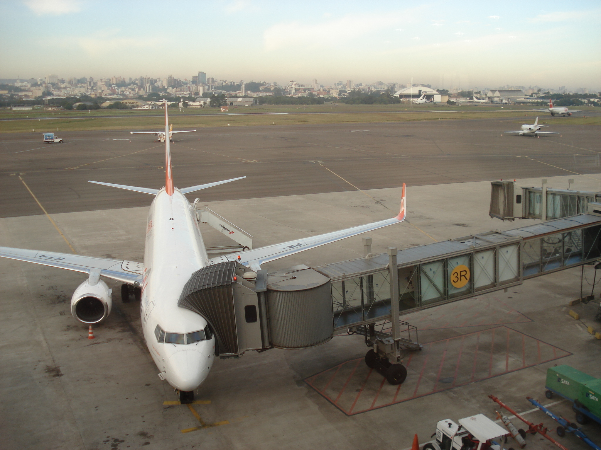 Gol Transportes Aéreos Boeing 737-800 at Salgado Filho International Airport